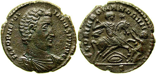 Coin of the Roman emperor Nepotianus. Front: Nepotianus with paludamentum, inscription: FL POP NEPOTIANVS PF AVG